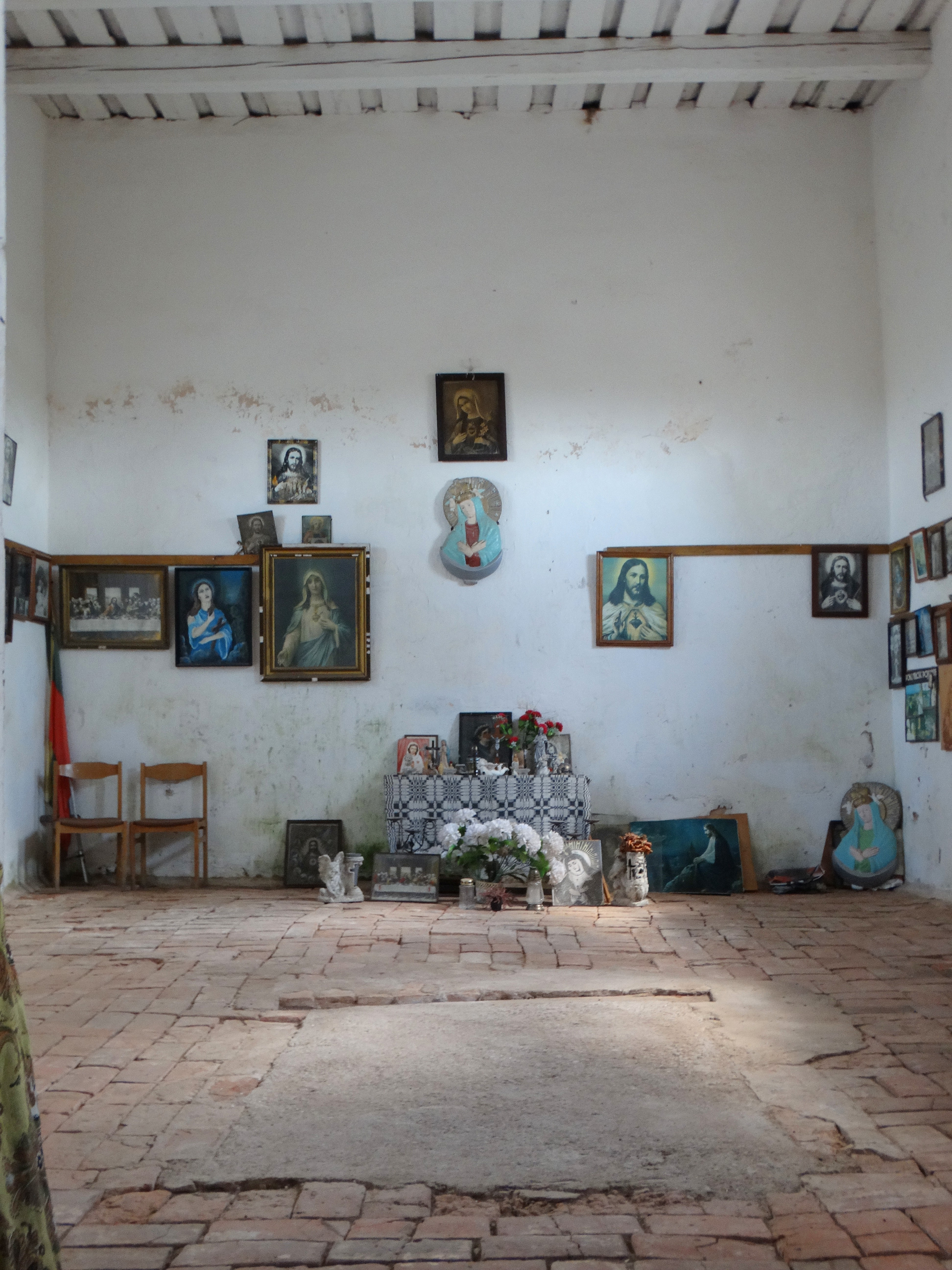 Siesikai, chapel, Ukmergė district, Lithuania